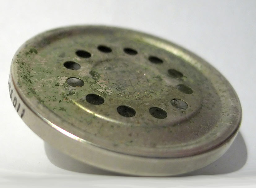 Coal microphone